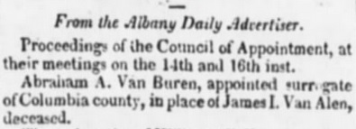 Newspaper announcement of James I. Van Alen's successor as surrogate judge of Columbia County, New York. Van Alen was a former member of Congress and the half-brother of Martin Van Buren